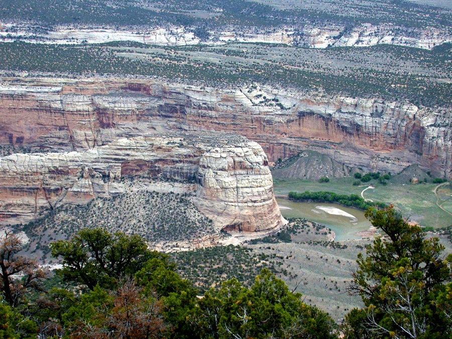 Steamboat Rock and Echo Park in Dinosaur National Monument, Utah-Colorado, USA